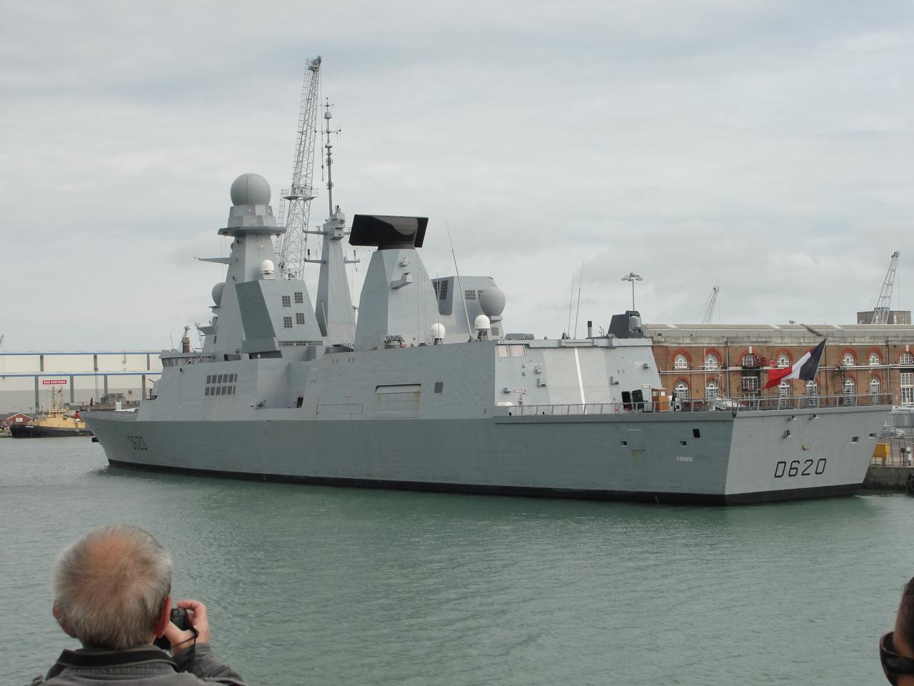 French warship Forbin (D620) moored in Portsmouth.